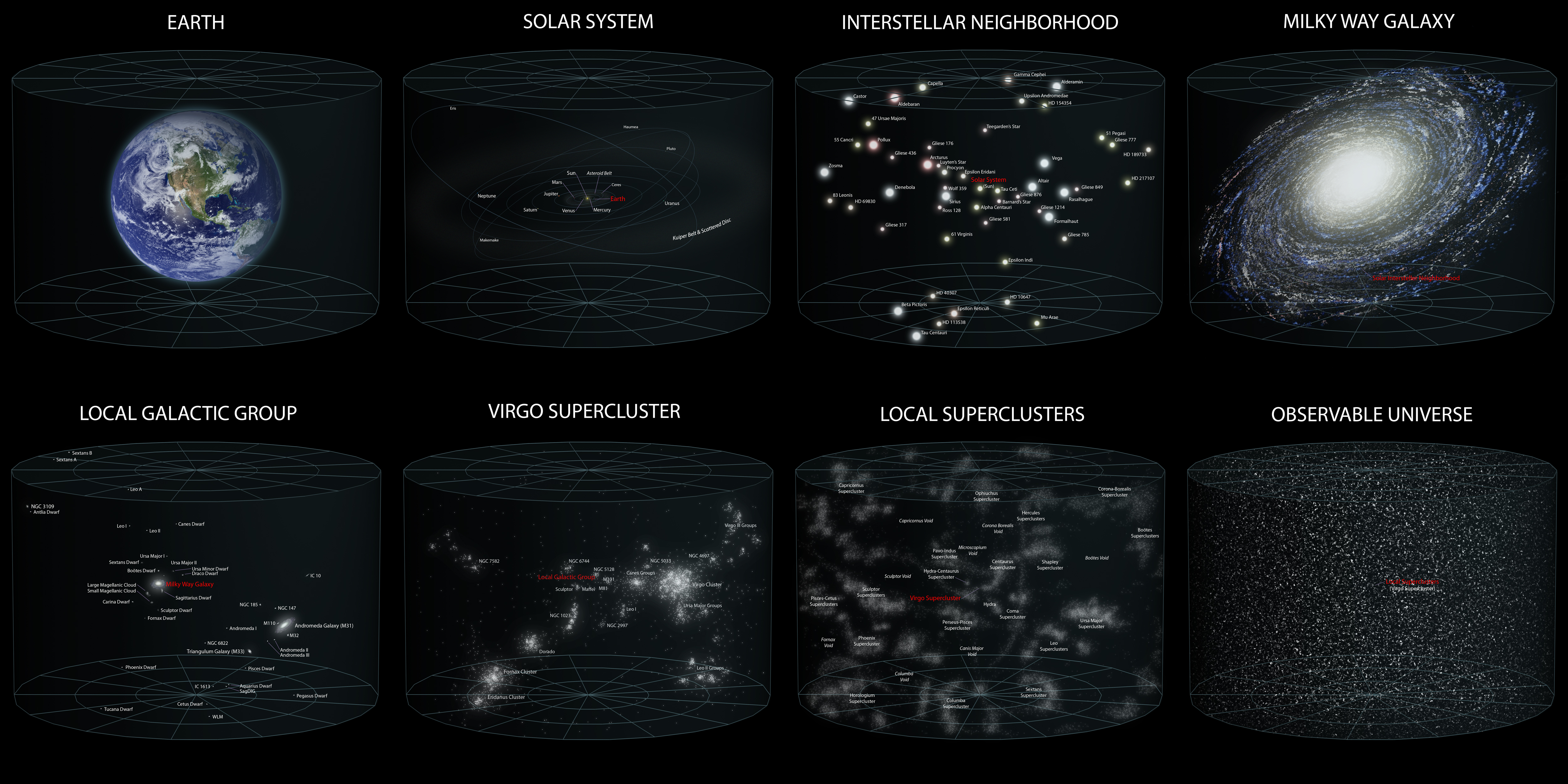 A diagram of Earth’s location in the Universe in a series of eight maps that show from left to right, starting with the Earth, moving to the Solar System, onto the Solar Interstellar Neighborhood, onto the Milky Way, onto the Local Galactic Group, onto the Virgo Supercluster, onto our local superclusters, and finishing at the observable Universe. The original image is located here: Earth's Location in the Universe UPDATE: There is a new, more accurate, higher quality version of this image and its constituent parts that can be found at the Location of Earth in the Universe!